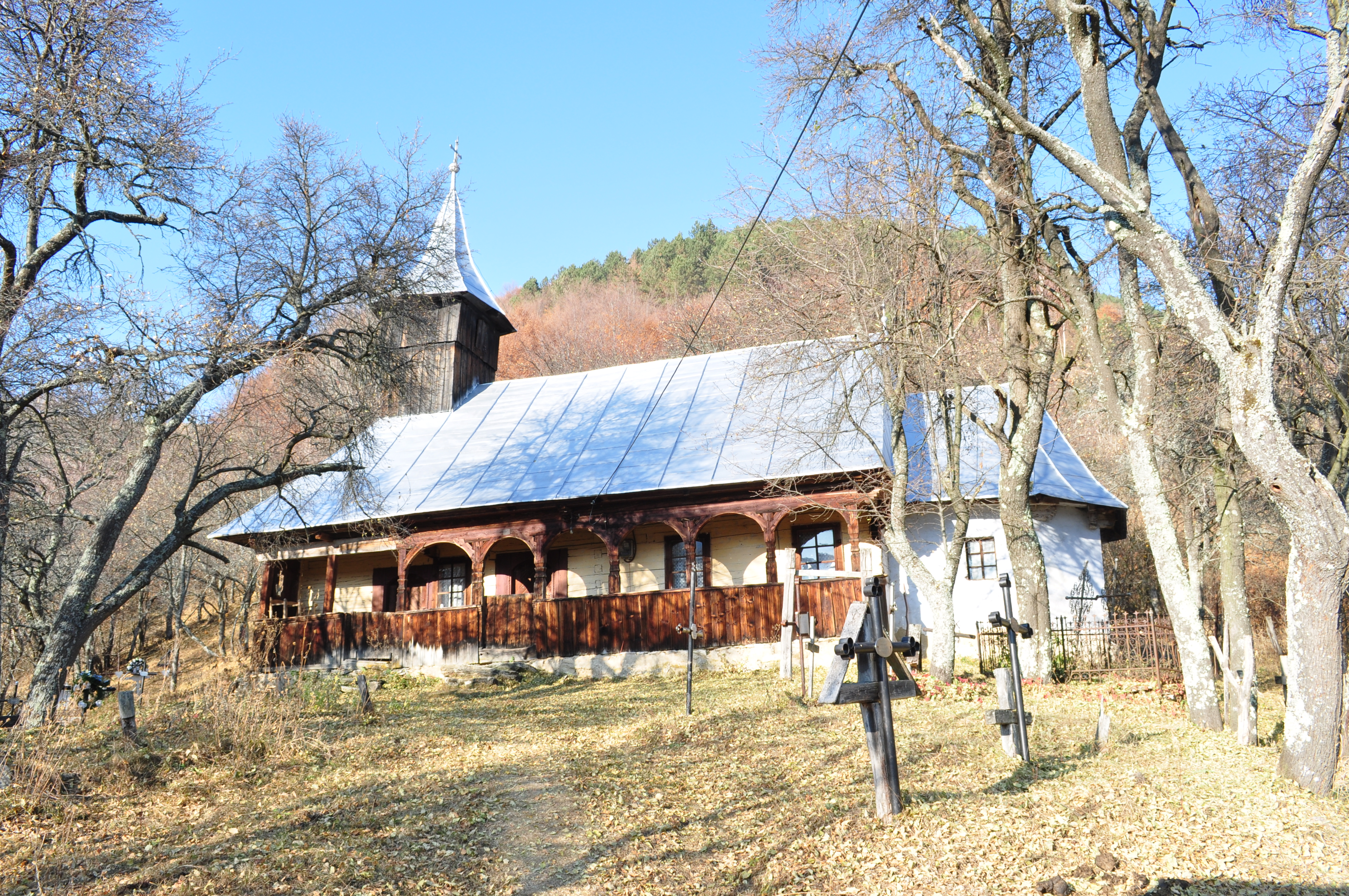 Biserica de lemn din Dealu Geoagiului, județul Alba